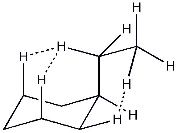 The dashed lines indicate 6-atom interactions found in this conformation of ethyl cyclohexane, which amounts to approximately 2.7 kcal/mol in the enthalpic term of Free Energy.